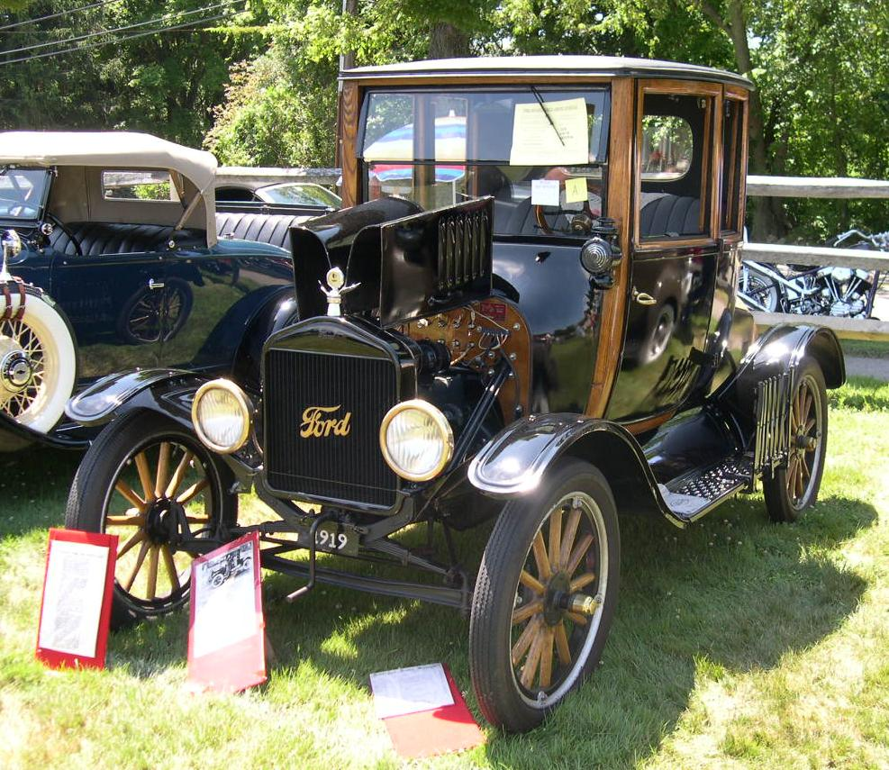 1919 Ford Model T Highboy Coupe Source: Photographed at the Bay State Antique Automobile Club's July 10, 2005 show at the Endicott Estate in Dedham, MA by User:Sfoskett